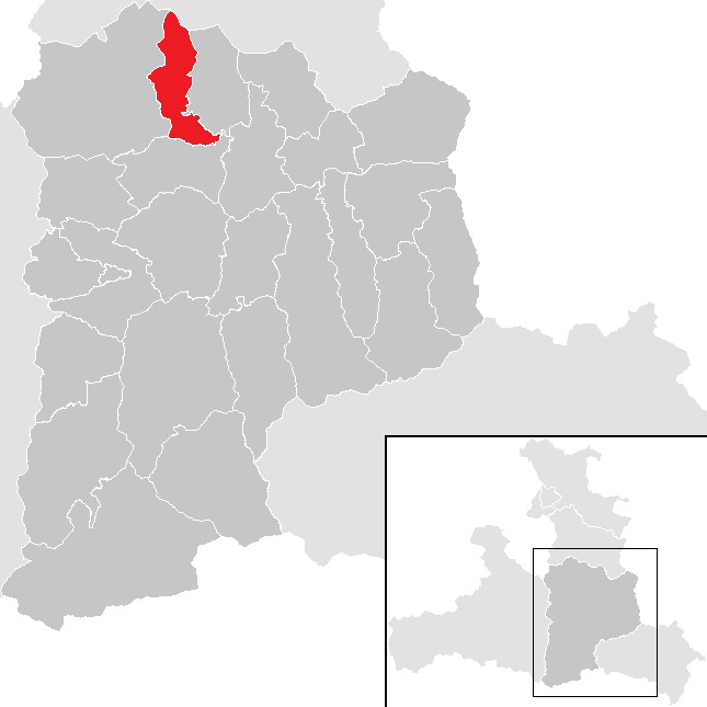 District Sankt Johann im Pongau